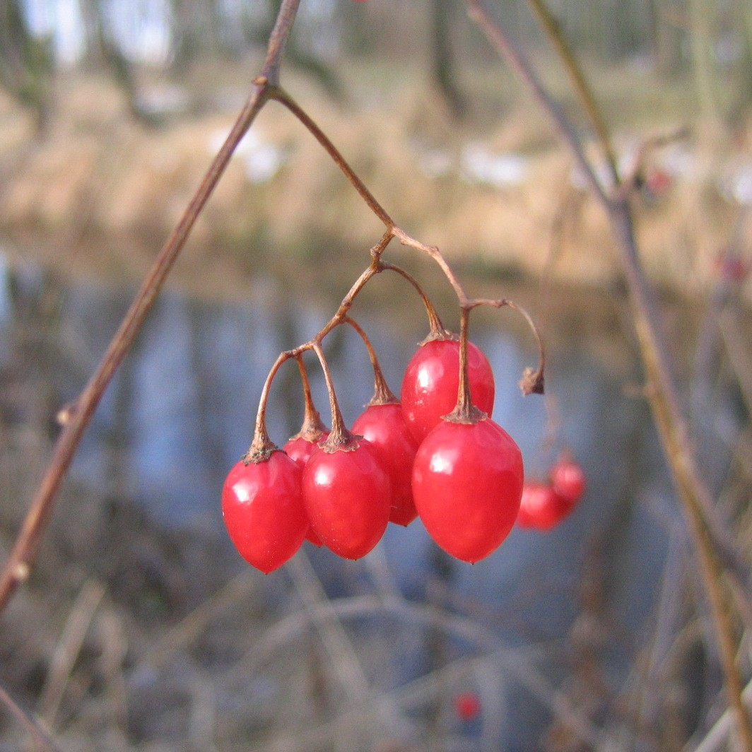 Close-up of bittersweet (Solanum dulcamara) fruits. Photo is taken in Poland, near Staszów town, on the banks of Czarna River.